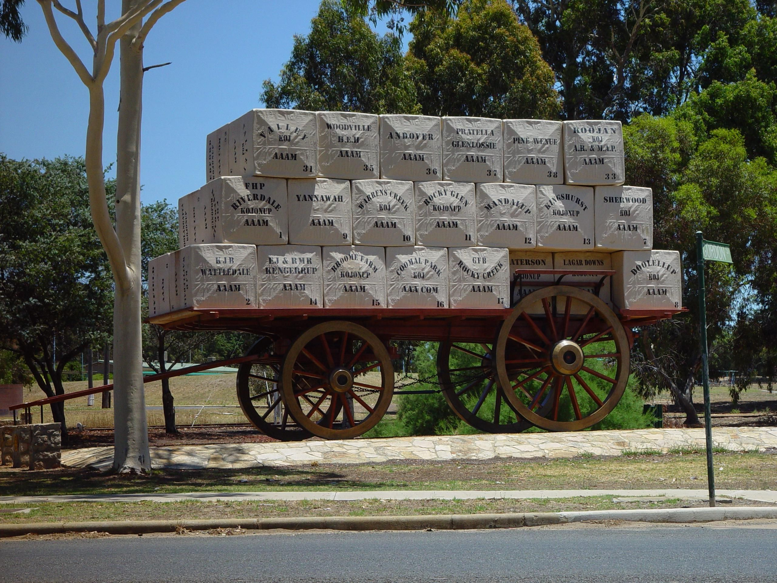 Image title: Cart laden with branded wool bales Image from Public domain images website